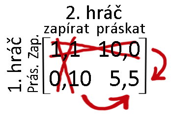 dominition prosoner's dilema